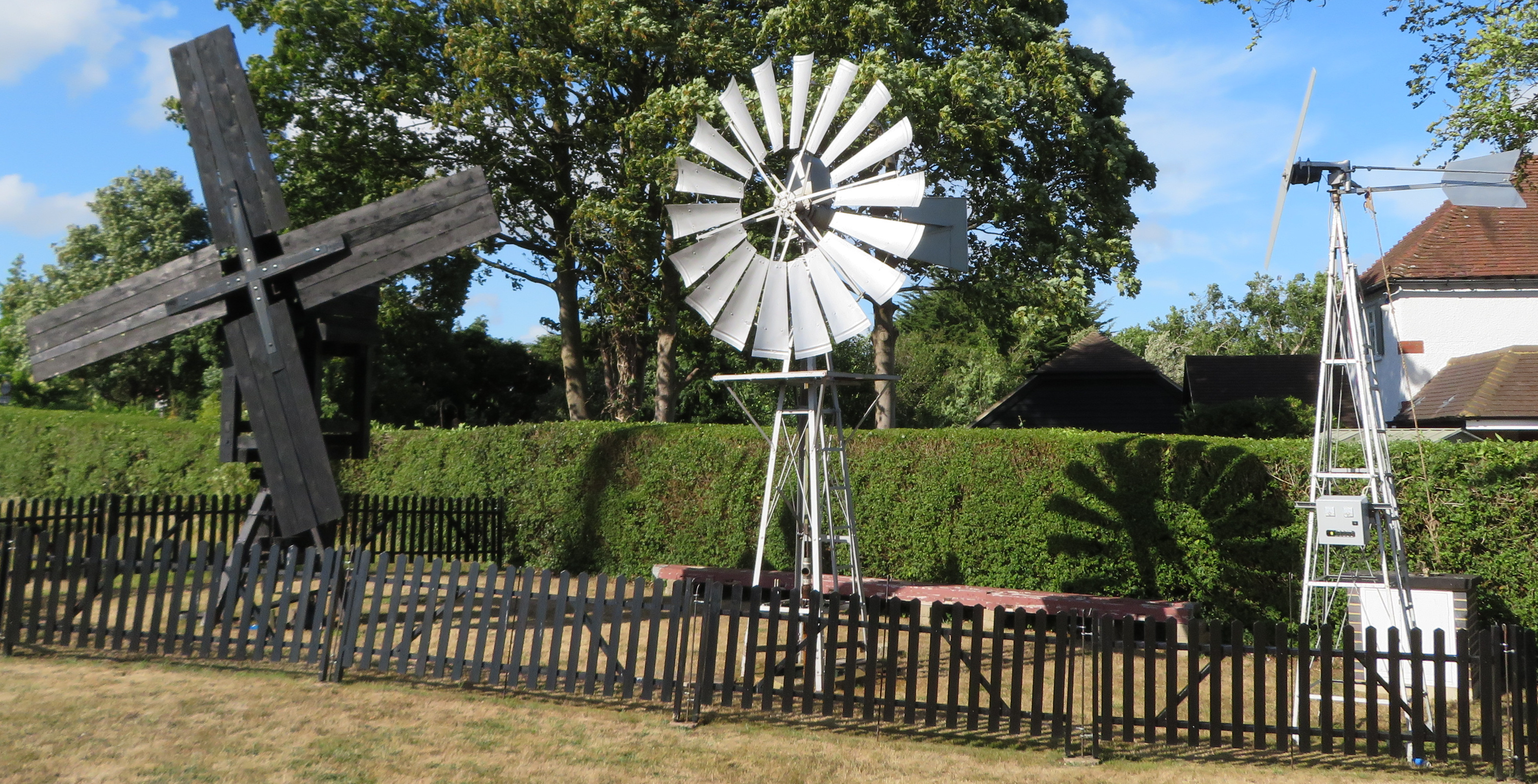 A view of Glynde Windpump (sometimes known as the Beddingham Water Pump), Nutley Wind Engine and Nutley Wind Generator installed and running at High Salvington Windmill on 28 June 2020.